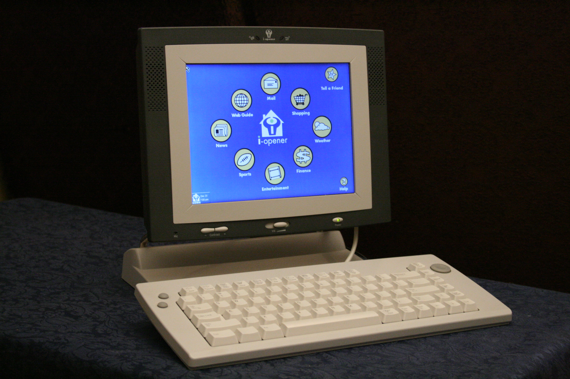 Netpliance i-Opener main menu upon boot-up.